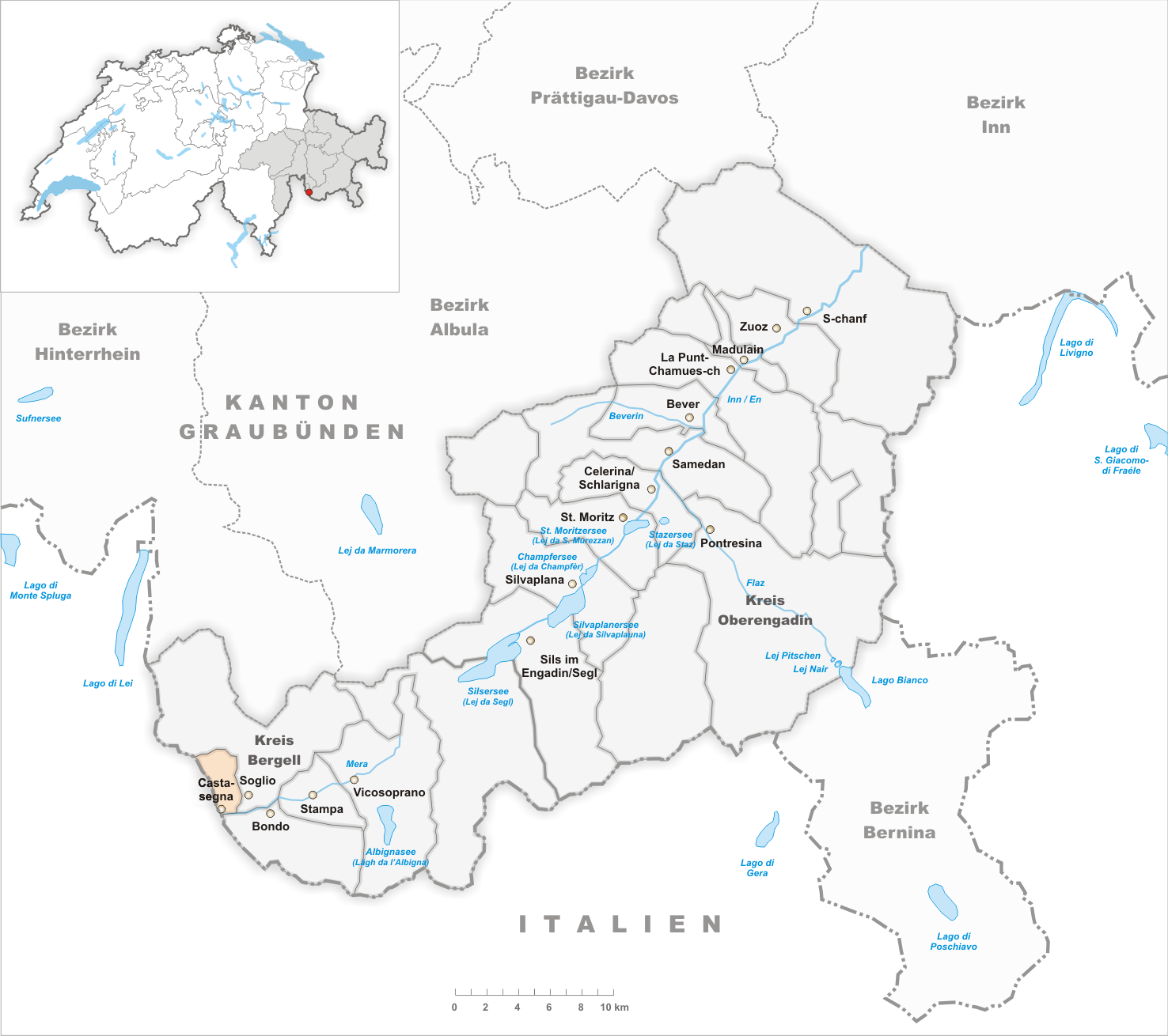 Municipality Castasegna